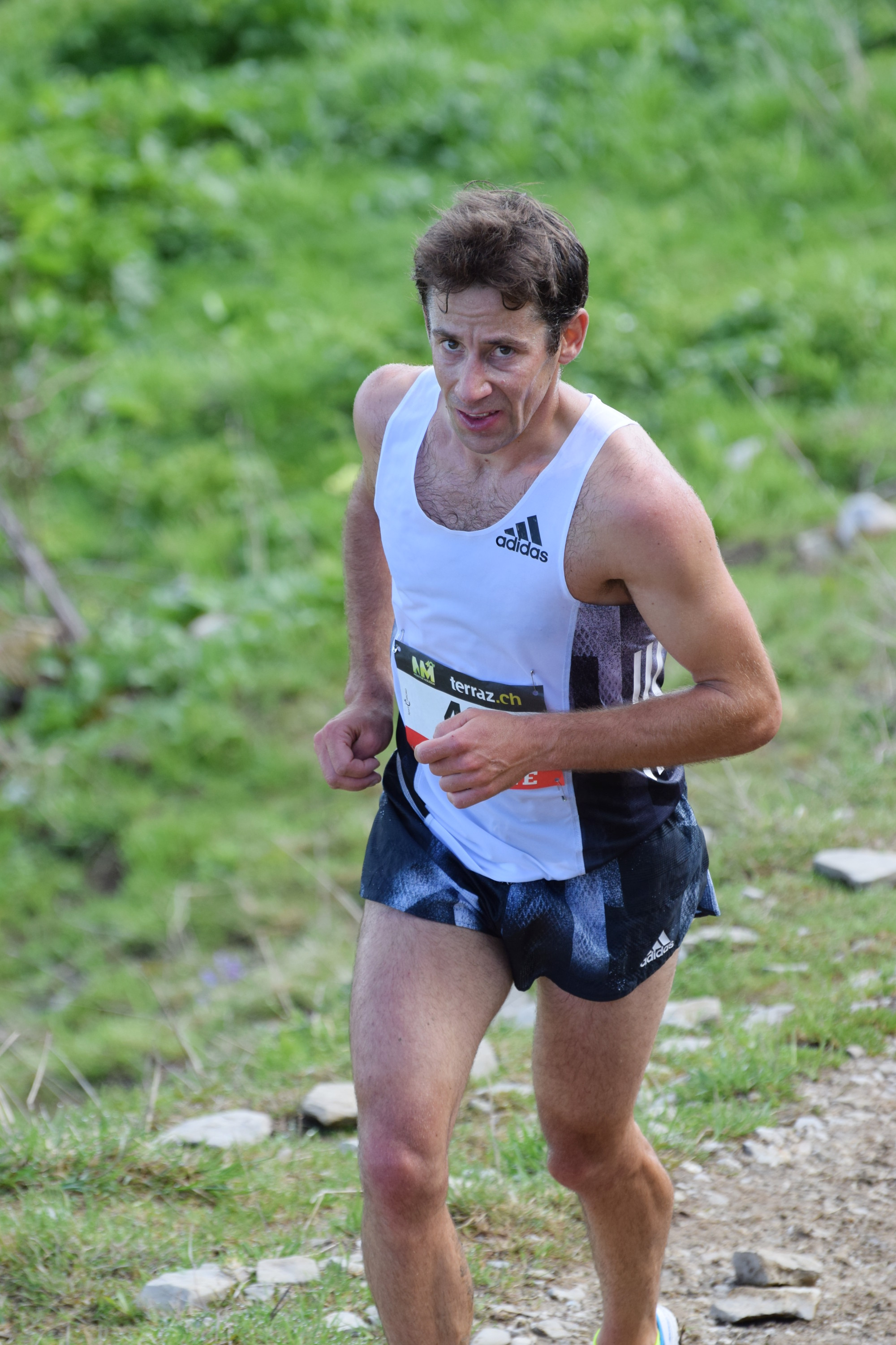 Martin Anthamatten at 2019 Neirivue-Moléson